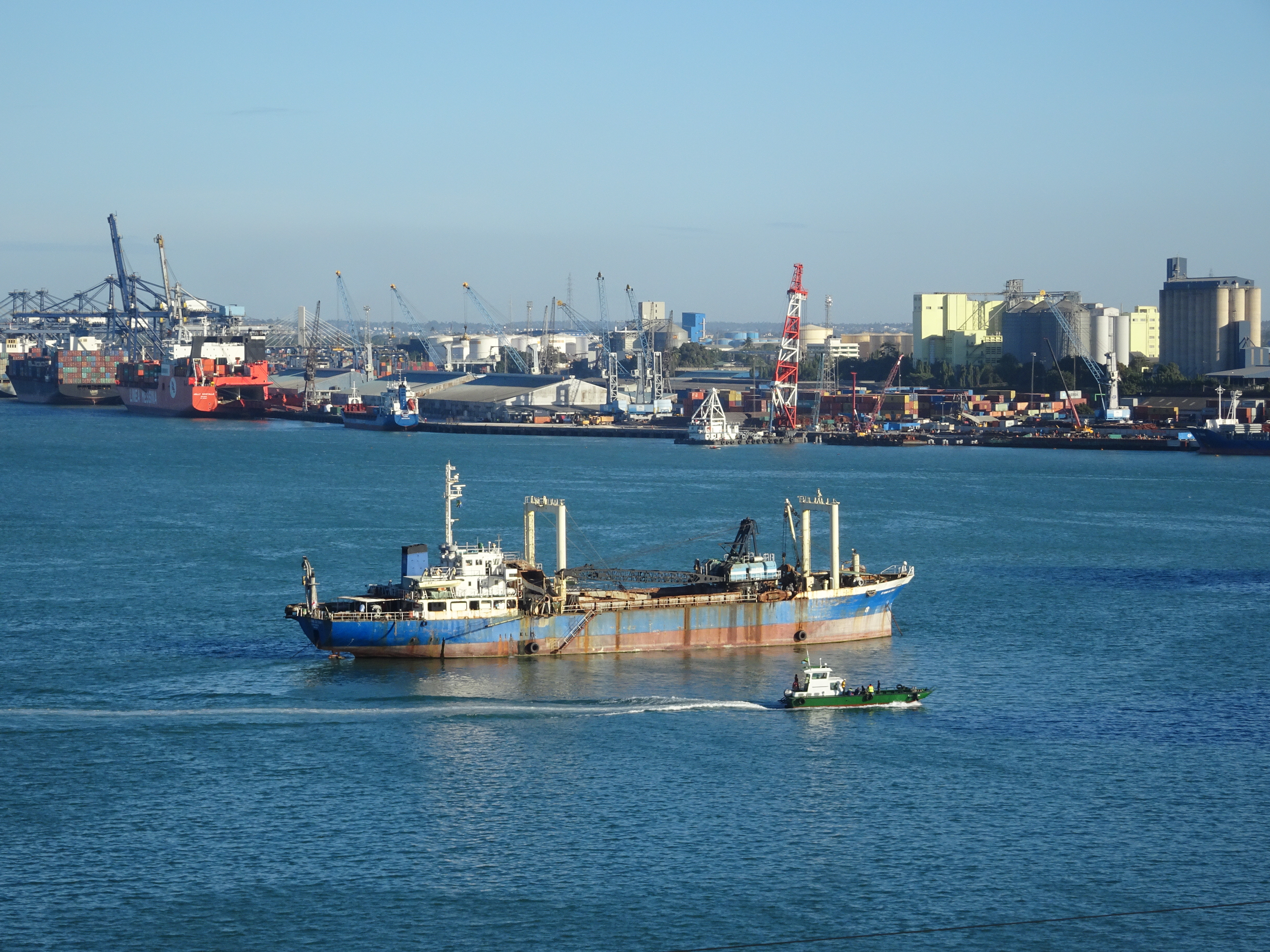 Port activities in Dar Es Salaam, Tanzania. This is an image with the theme "Africa on the Move or Transport" from: Tanzania